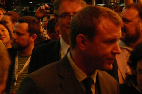 Guy Stuart Ritchie (born 10 September 1968, Hatfield, Hertfordshire) - English screenwriter and filmmaker.